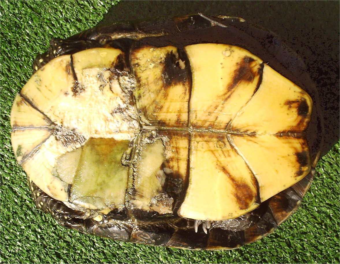 Emys orbicularis carapax bottom side